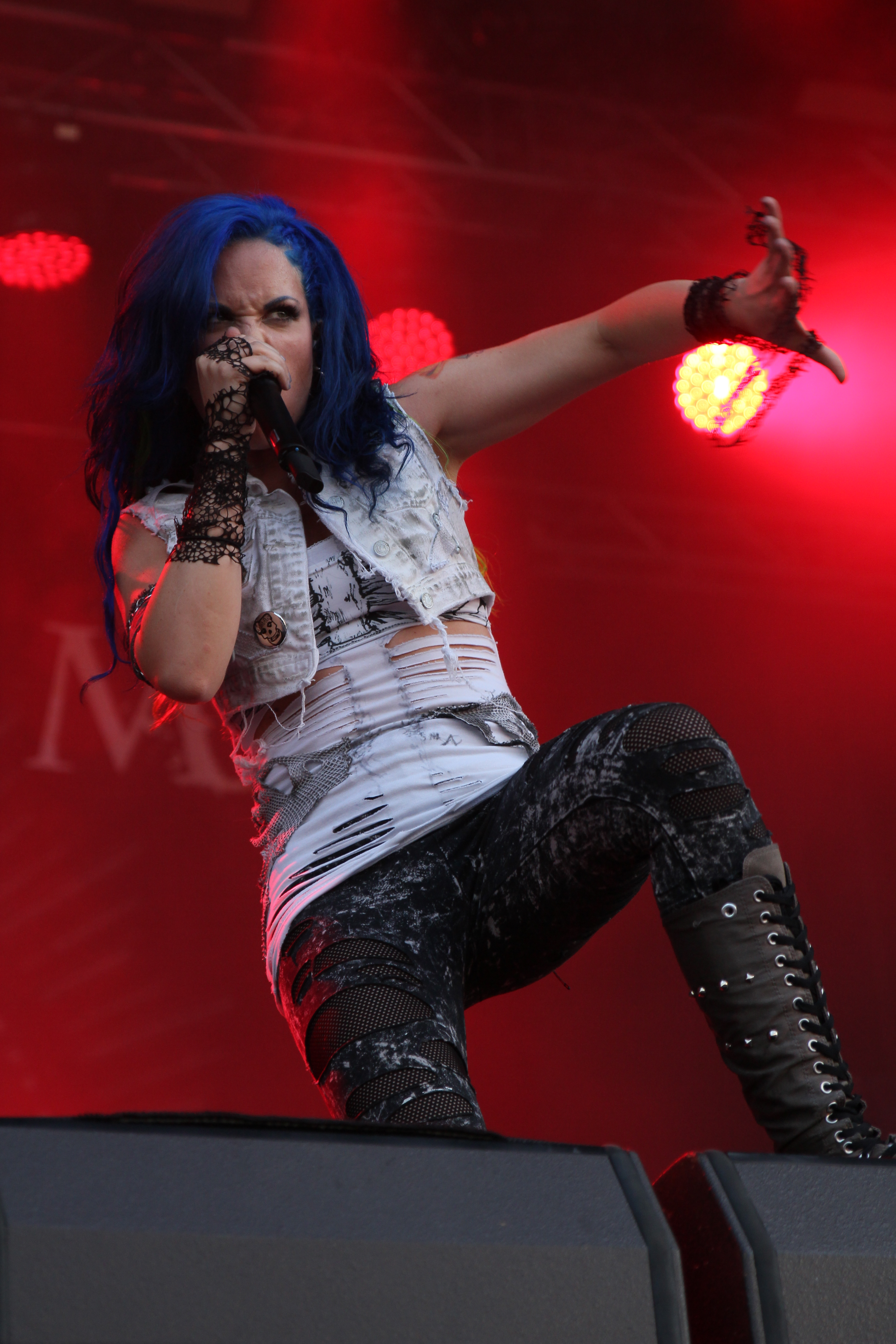 The Swedish melodic death metal band Arch Enemy at the Rockharz Open Air 2014 in Ballenstedt/Germany